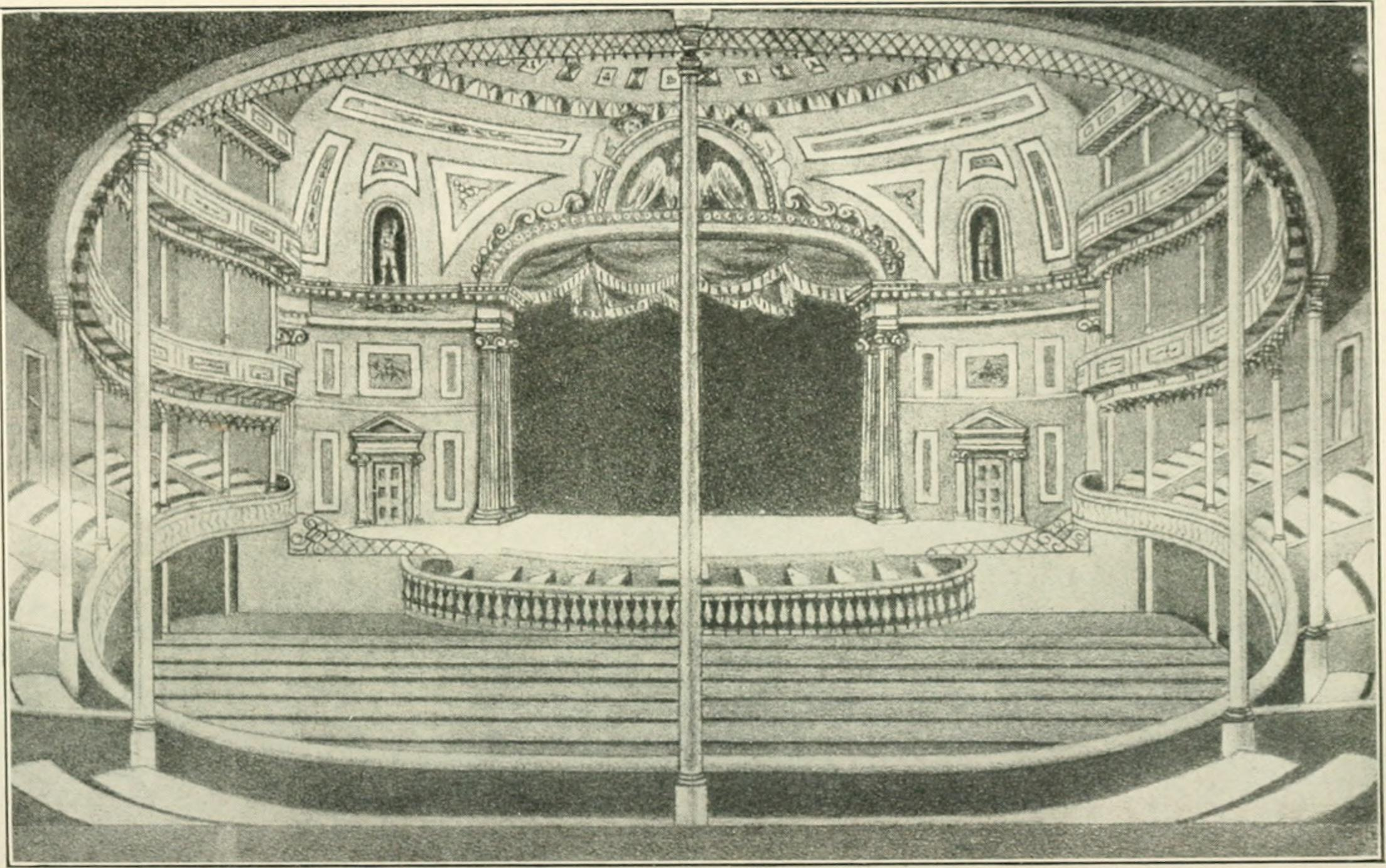 Title: Our theatres to-day and yesterday Year: 1913 (1910s) Authors: Dimmick, Ruth Crosby Subjects: Theater -- New York (State) New York Publisher: New York : The H.K. Fly Company Text Appearing Before Image: ' Text Appearing After Image: CHAPTER VI. THE BEGINNING OF BURLESQUE. The Olympic Theatre, located at 144 Broadway, between Grand and Howard streets, was opened September 12, 1837, and was described by a critic of the day as a parlor of elegance 1837 and beauty. The opening performance was Perfec-tion, followed by The Lady and the Devil. Theauditorium was small and was entered by a subterranean passage running between the boxes and furnished with distinct ticketvendors and doorkeepers. The first and second rows of boxeswere shut off from the lobby by a series of doors and were setapart for ladies and their escorts. A bar was run in connectionwith the theatre for the accommodation of the thirsty. Seats inthe boxes sold for 75 cents, and in the pit for 37^/2 cents. TheOlympic, however, was not placed on a paying basis until theseason of 1838-9, when William Mitchell took hold of it. Thenfrom 1841 to 1845 it became the leading place of amusement inthe city, producing light farces, extravaganzas and burlesques,in whic